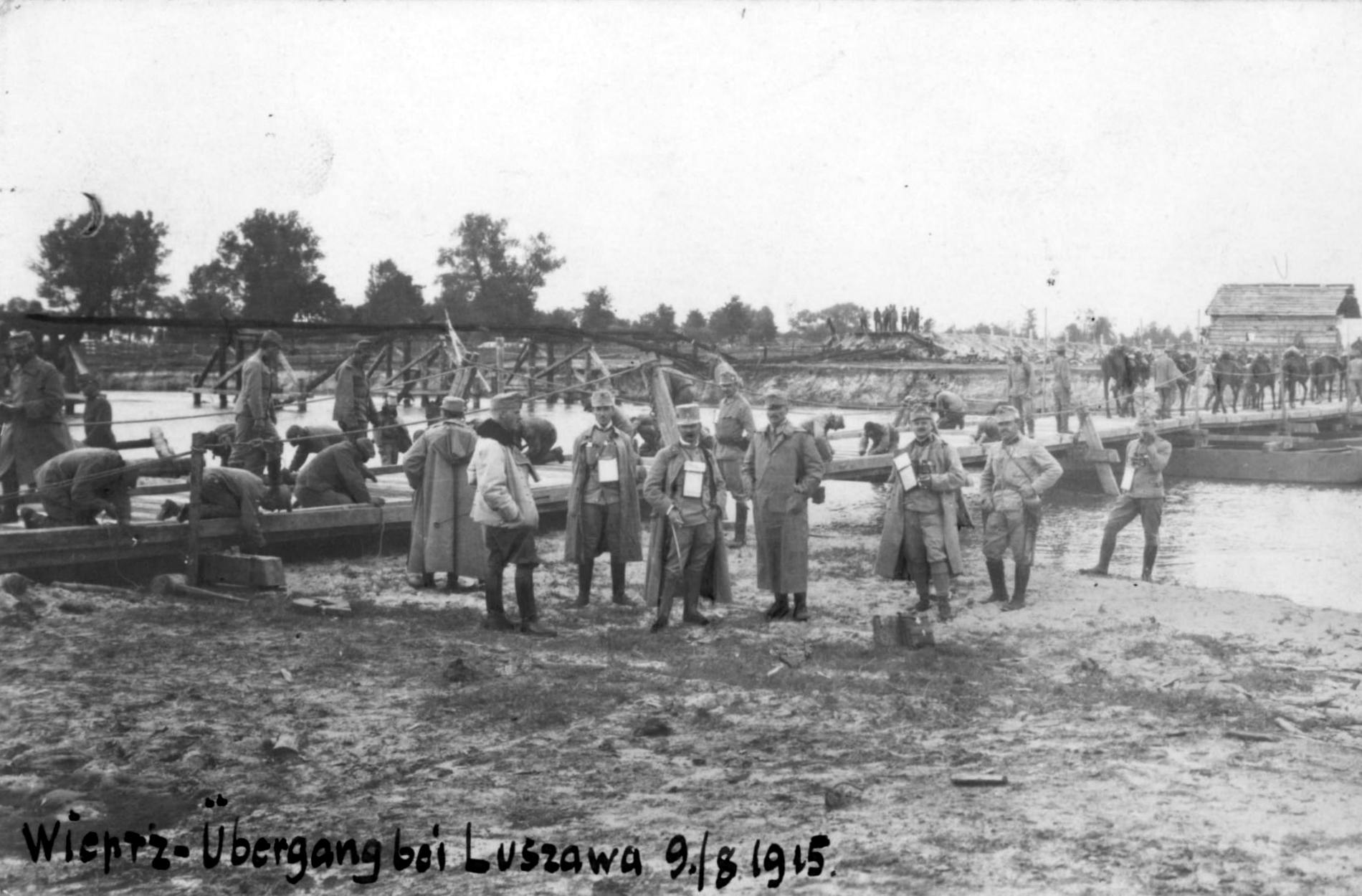 Salzburgisch-Oberösterreichisches Infanterie-Regiment „Erzherzog Rainer“ Nr. 59